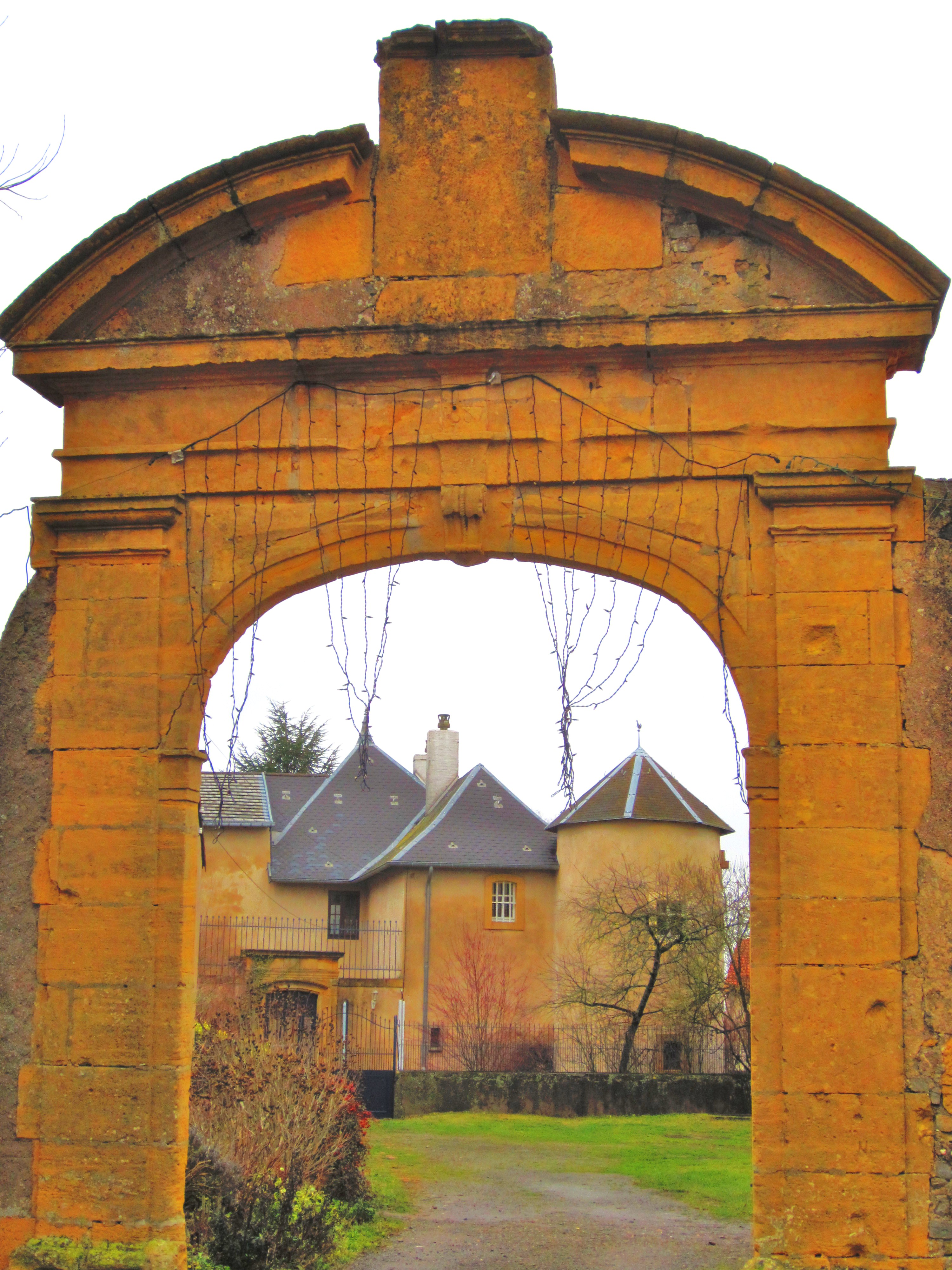 Description porche chateau Courcelles Nied Date9 January 2012Sourcemon appareil photoAuthorAimelaimePermission (Reusing this file) porche chateau Courcelles Nied